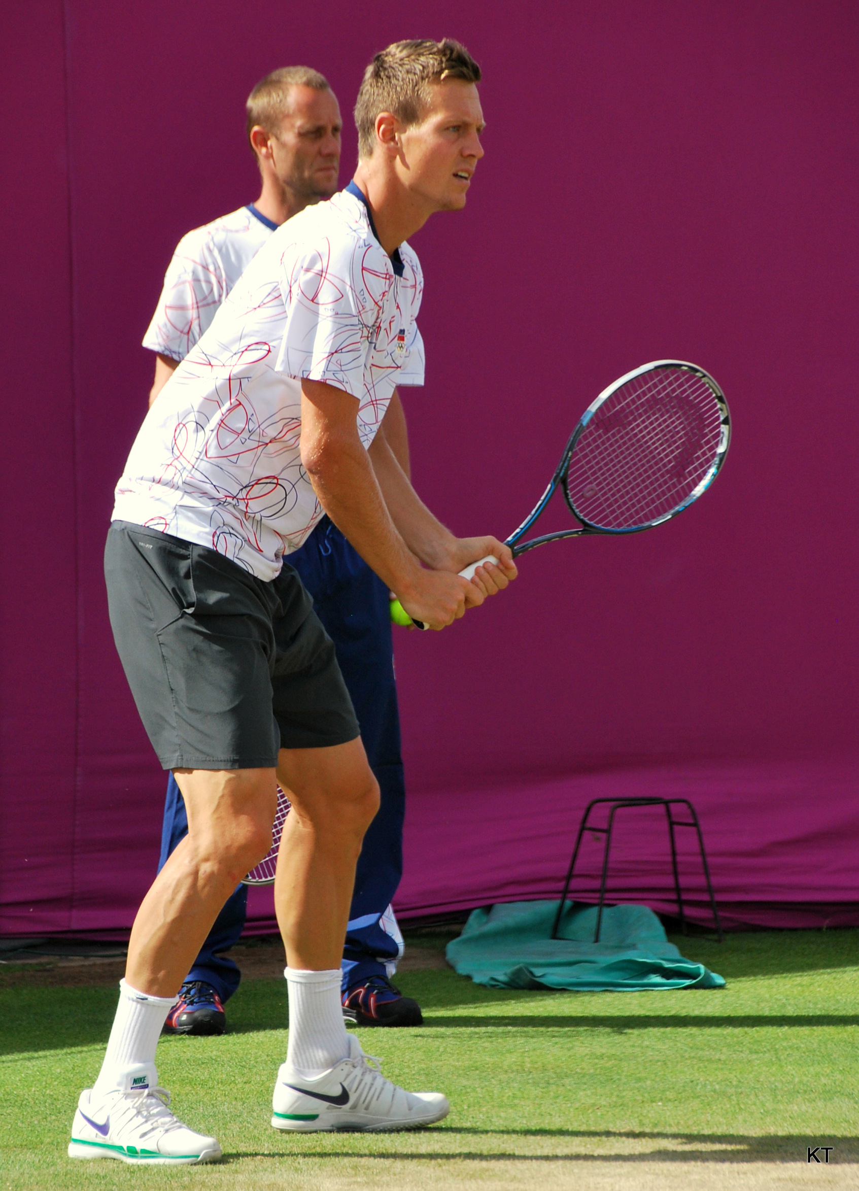 Tomas Berdych on the practice court.